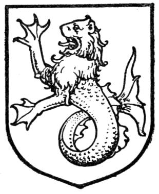 Fig. 314.—Sea lion.